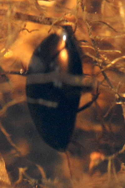 Ilybius montanus from Commanster, Belgian High Ardennes .